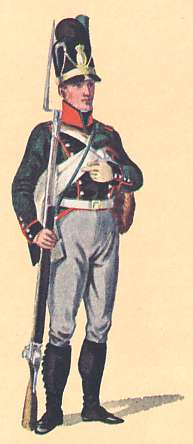 Schütze 2nd Light Infantry Battalion Dietfurth: 1806, from The Infantry of the Bavarian Army 1806: the Uniform Plates of Johann Cantler